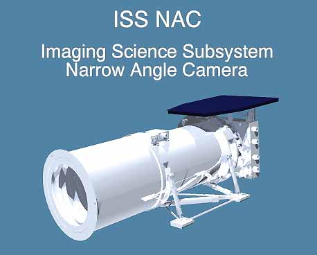 NAC camera of Cassini